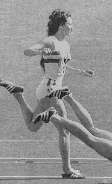 LG11 1972 Wire Photo PATTY JOHNSON ANN WILSON KARIN BALZER Olympic Track Dive